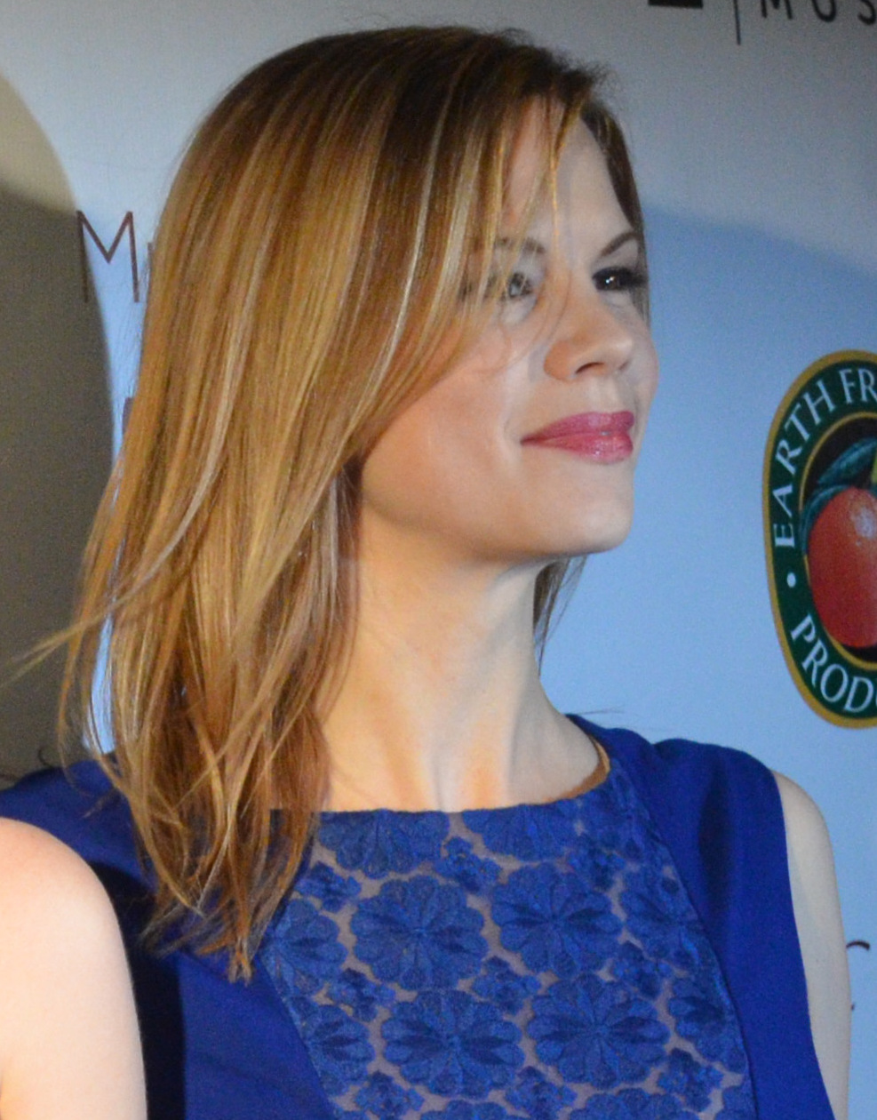 Devious Maids cast by Mingle Media TV